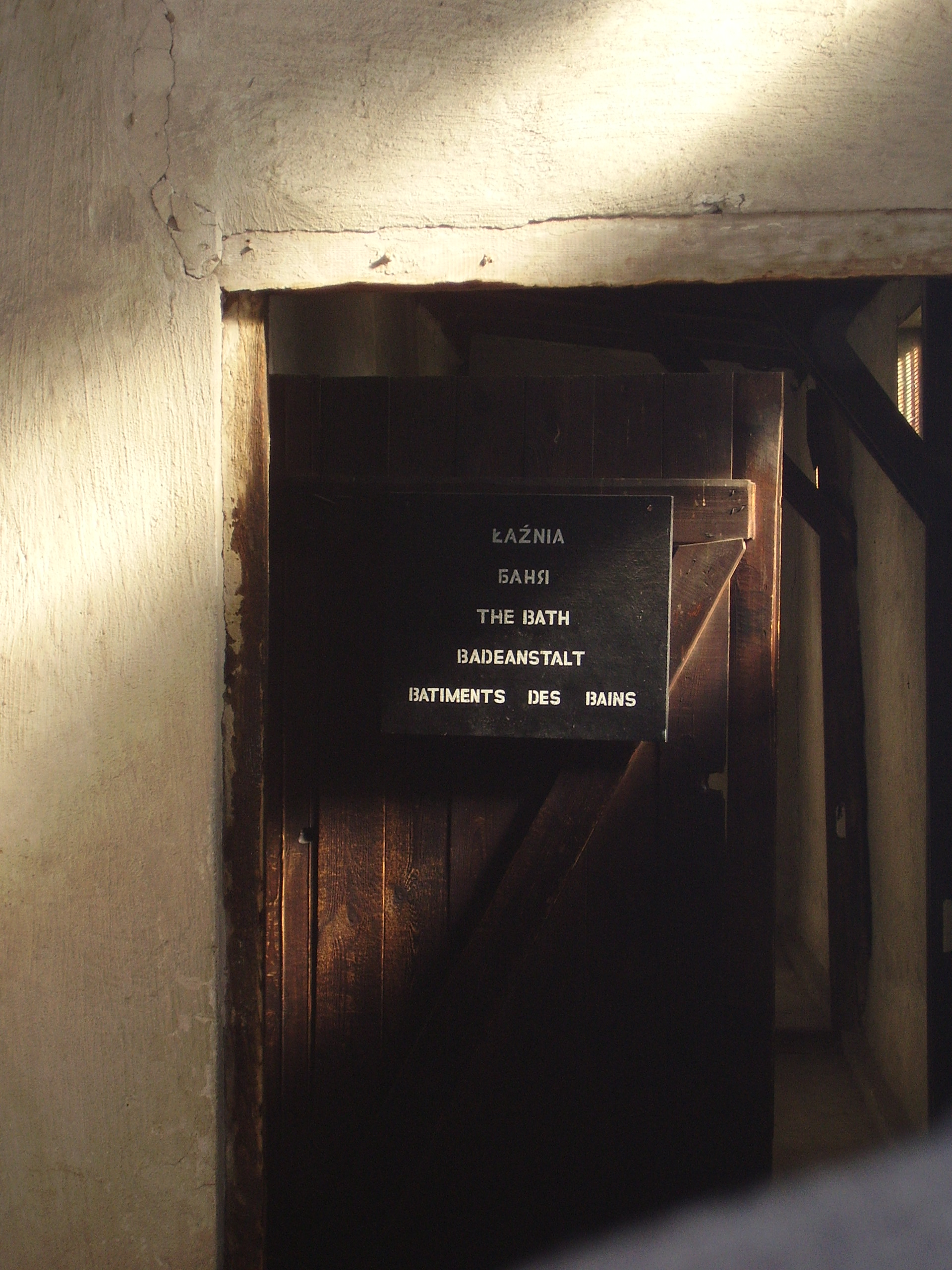 Commonly thought to be a gas chamber at Majdanek, this was most likely a laundry room, the gas chamber is a smaller room located behind the bath house/laundry.